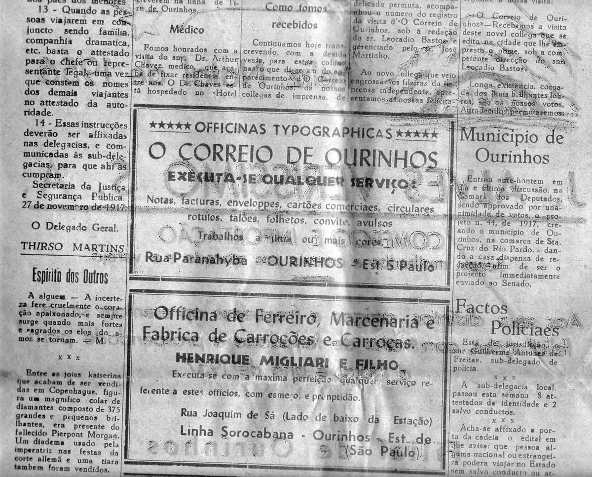 The first edition of Correio de Ourinhos journal, in 1917.